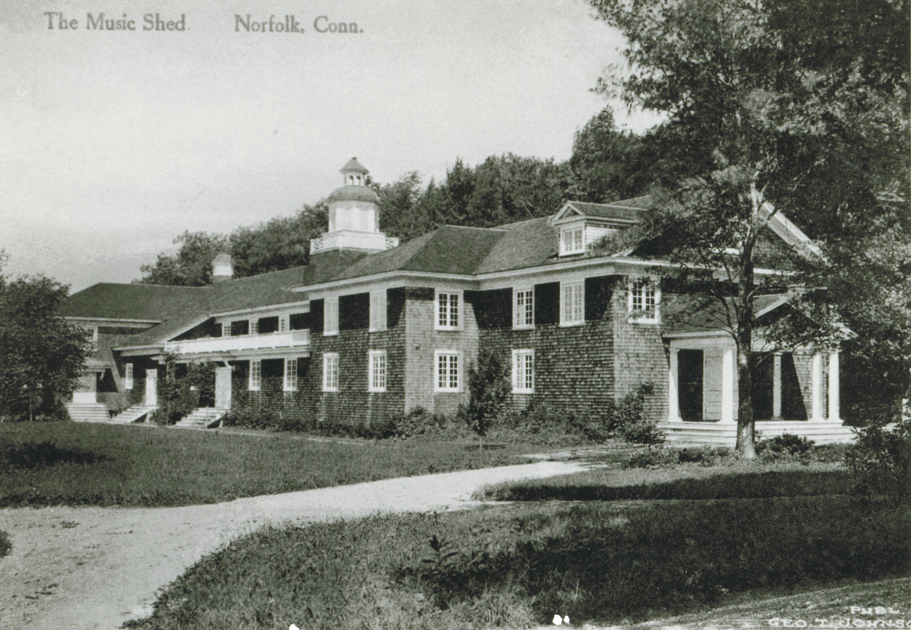 Exterior of the Music Shed, postcard